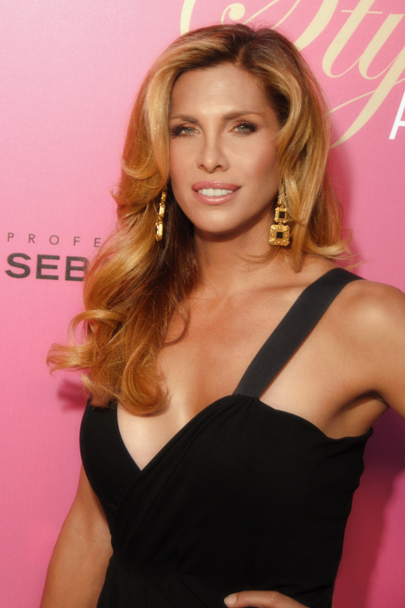 Candis Cayne attending "The 6th Annual Hollywood Style Awards" Beverly Hills, CA on Oct. 10, 2009 - Photo by Glenn Francis of